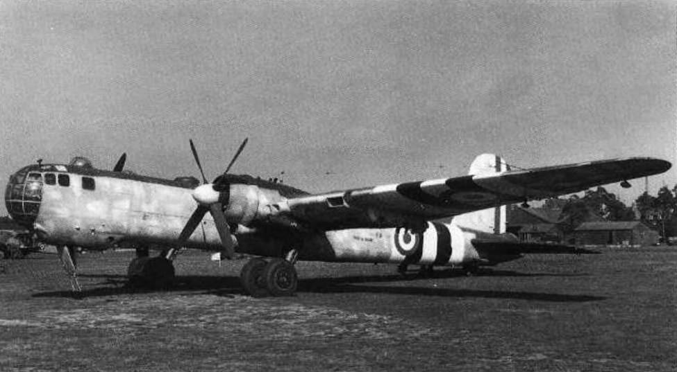 Heinkel HE177 with british markings